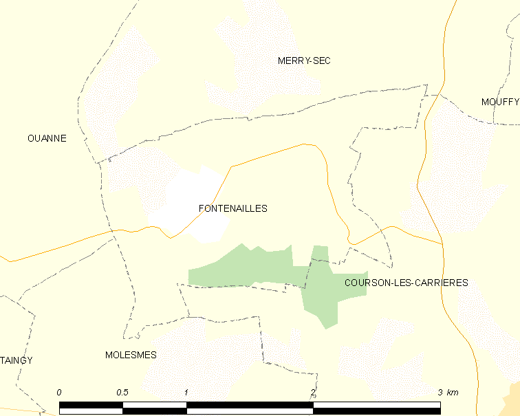 Map of French municipality Fontenailles